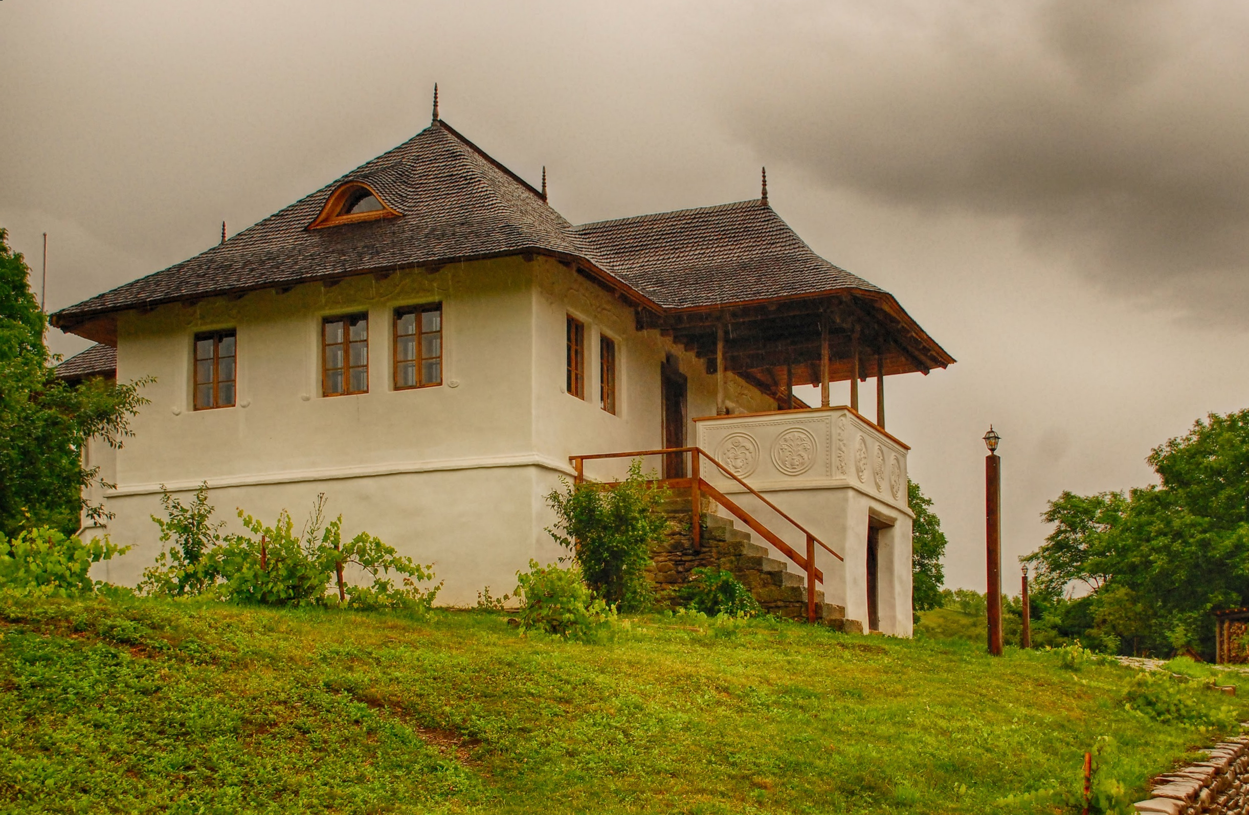 Blazon house in Chiojdu, Buzău County, RomaniaRomână: Casa cu blazoane din Chiojdu, județul Buzău, România